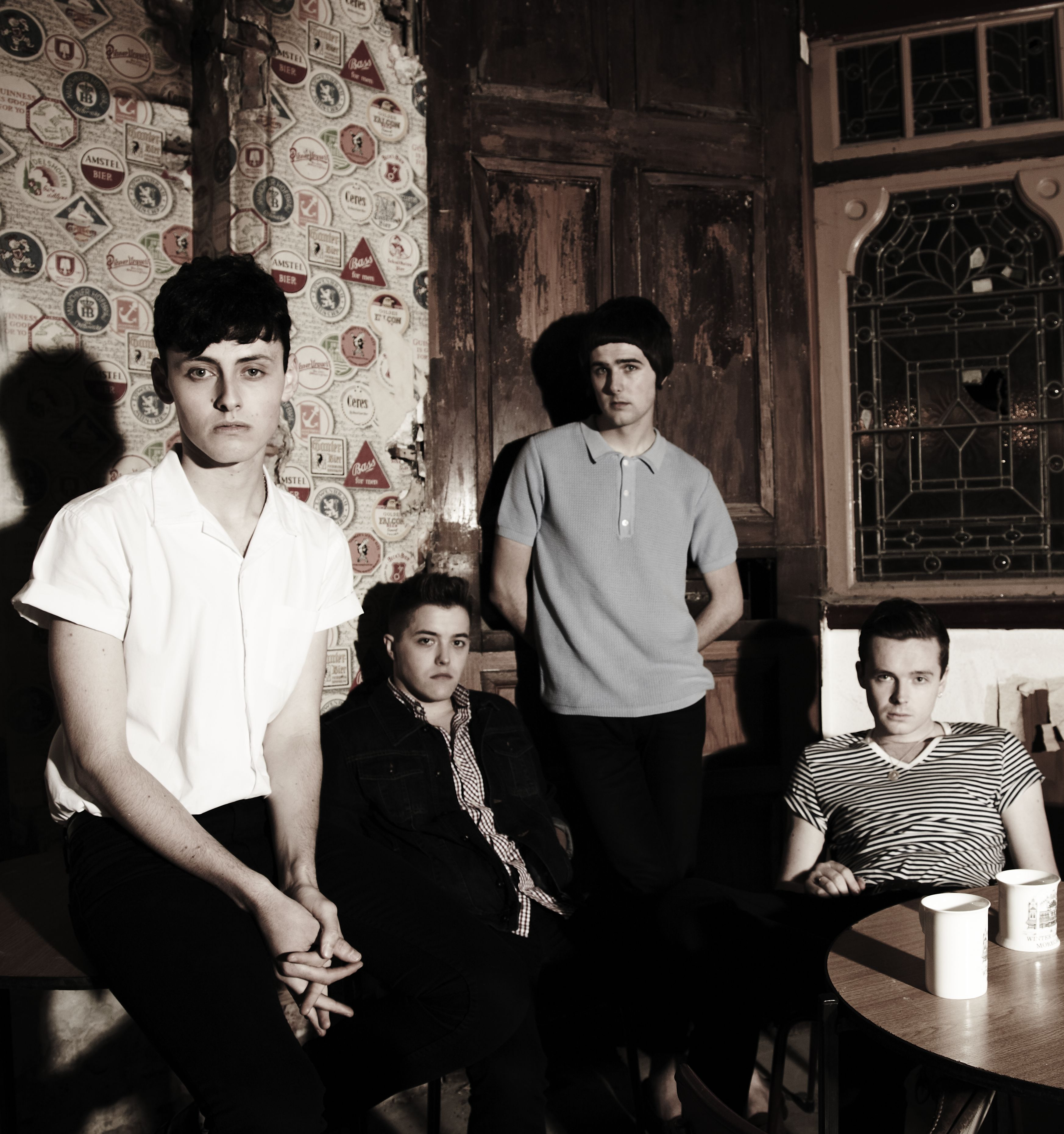 The Heartbreaks in 2010